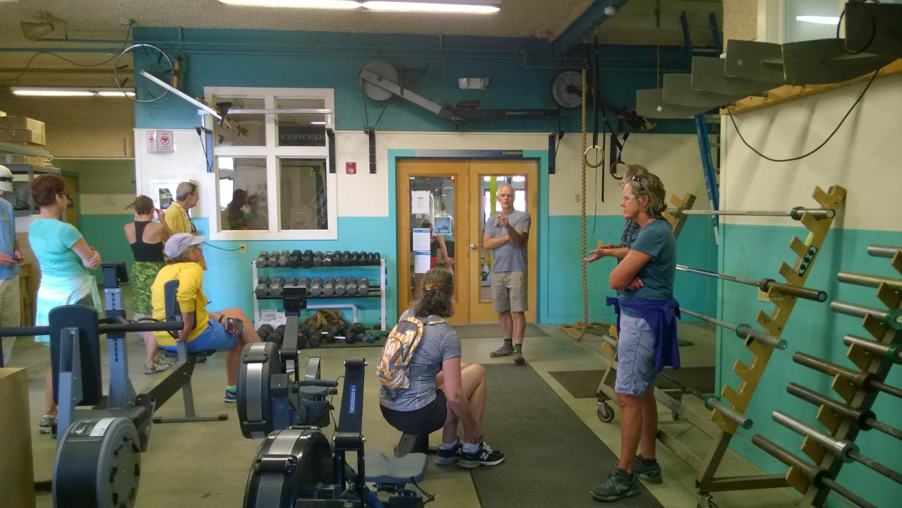 Scenes from a factory tour at Concept2 in Morrisville, Vermont